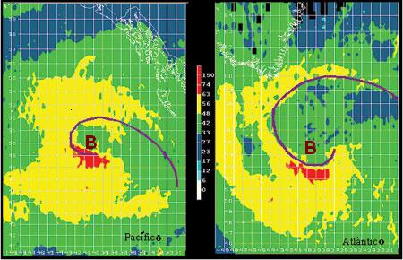 Derivated work from Quikscatcyclone.jpg. (Translated captions to Portuguese)